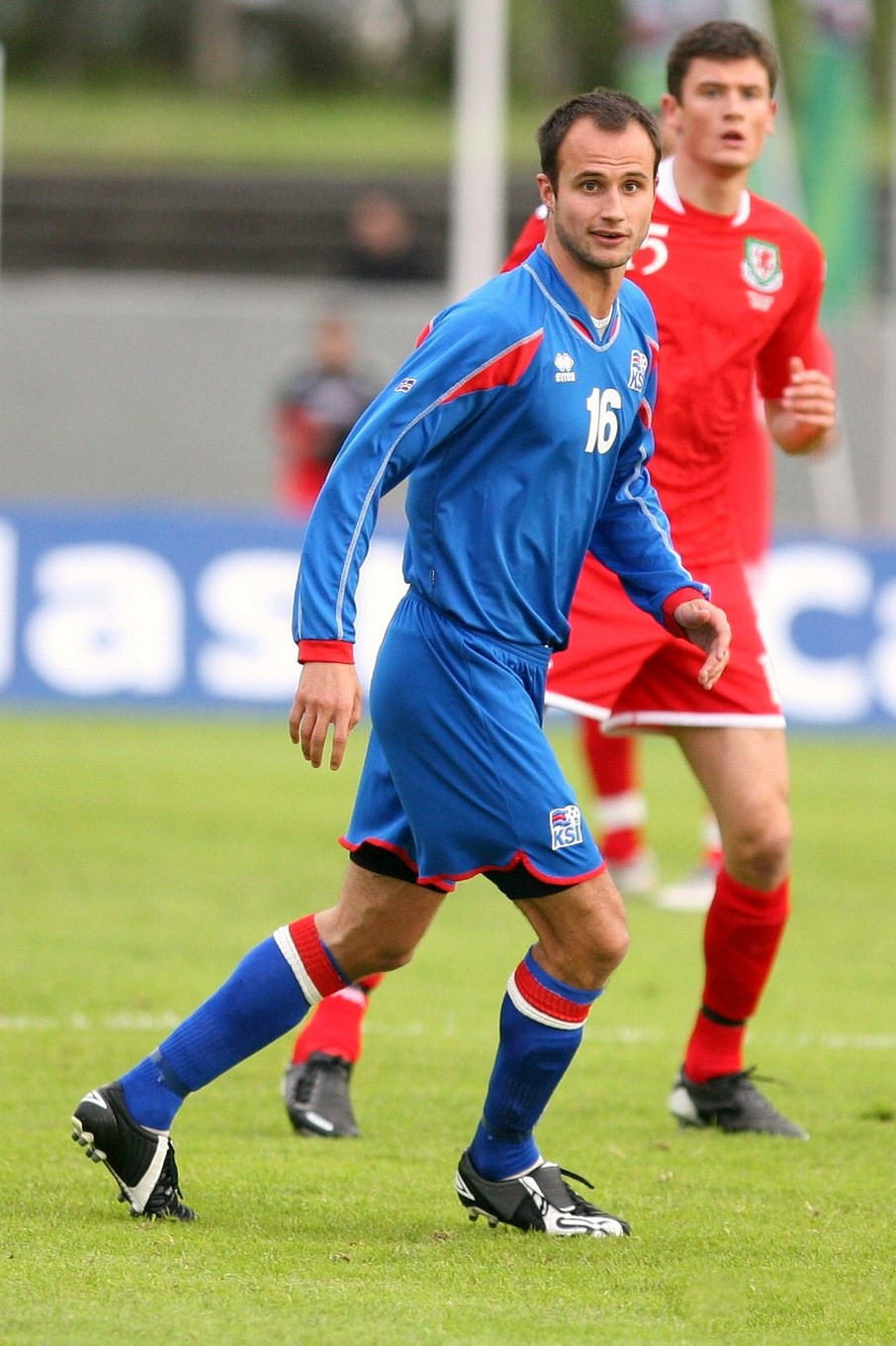 Iceland football player Helgi Daníelsson during match against Wales.